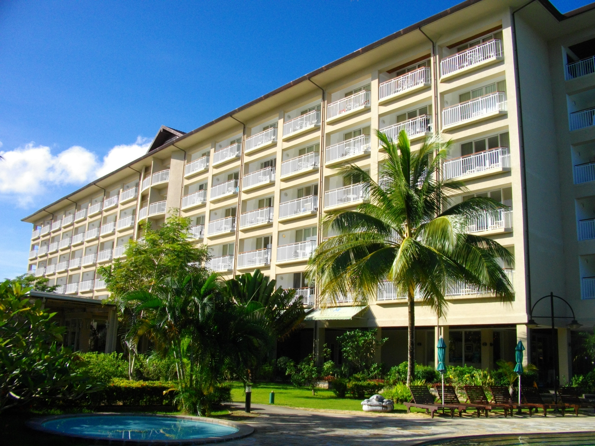 Palau Royal Resort